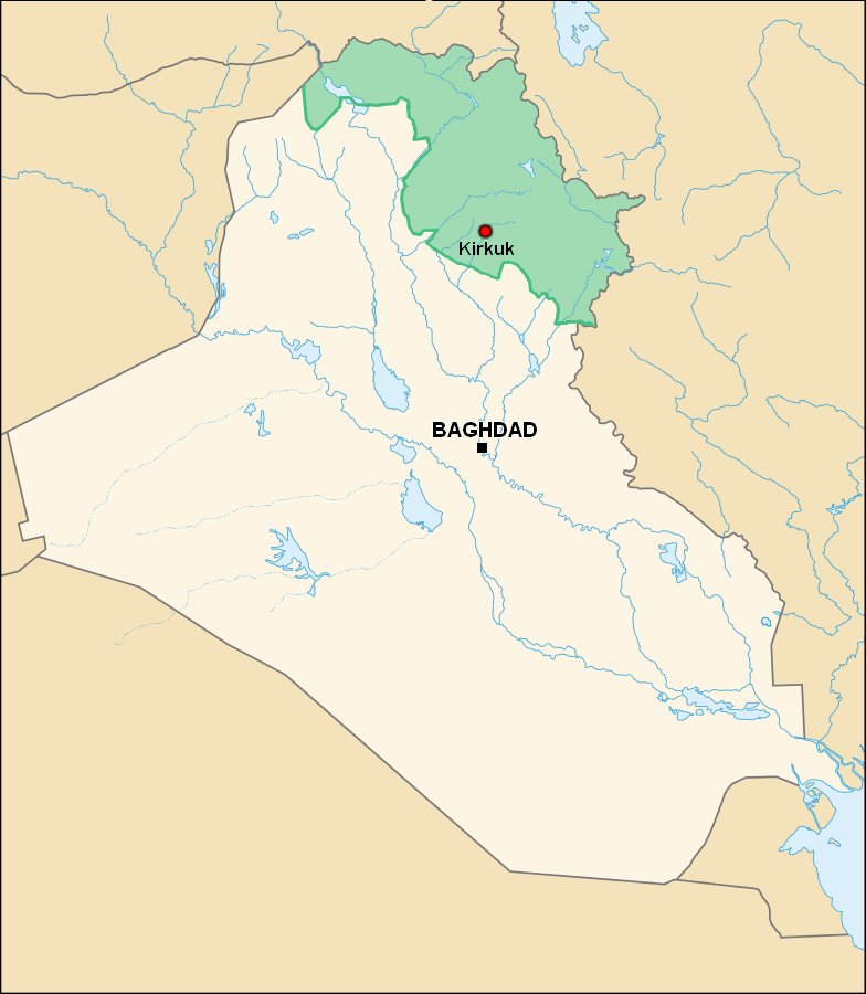 Location of Iraqi Kurdistan within Iraq.